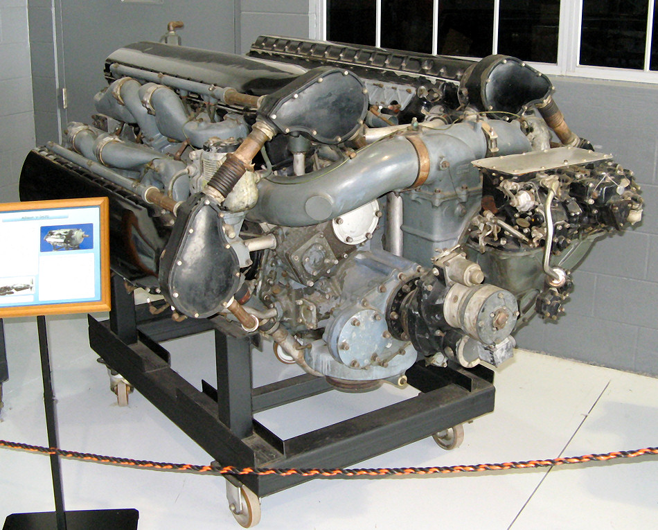 Allison 3420 24-cylinder dual vee, Fantasy Of Flight Museum, Florida